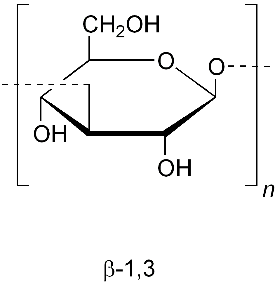 chemical structure of zymosan